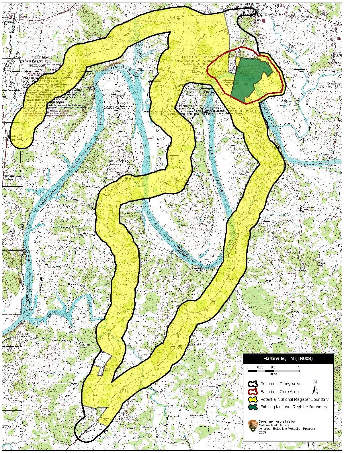 Map of battlefield core and study areas. The revised Study Area includes a widened approach route to accommodate the space need by the cavalry. The Core Area was expanded to include the 39th Brigade’s camp.